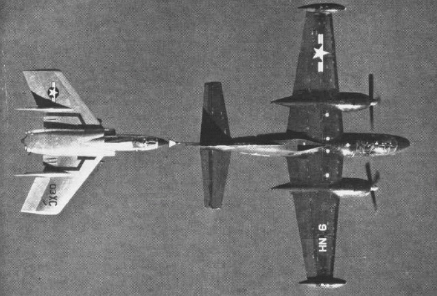 A North American AJ-2 Savage of the U.S. Navy composite squadron VC-7 Det. 1 Peacemakers of the Fleet refueling a Vought F7U-3 Cutlass of experimental squadron VX-3.